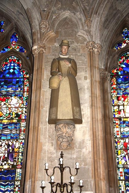 St Etheldreda, Ely Place, London EC1 - Nave statue St Margaret Ward